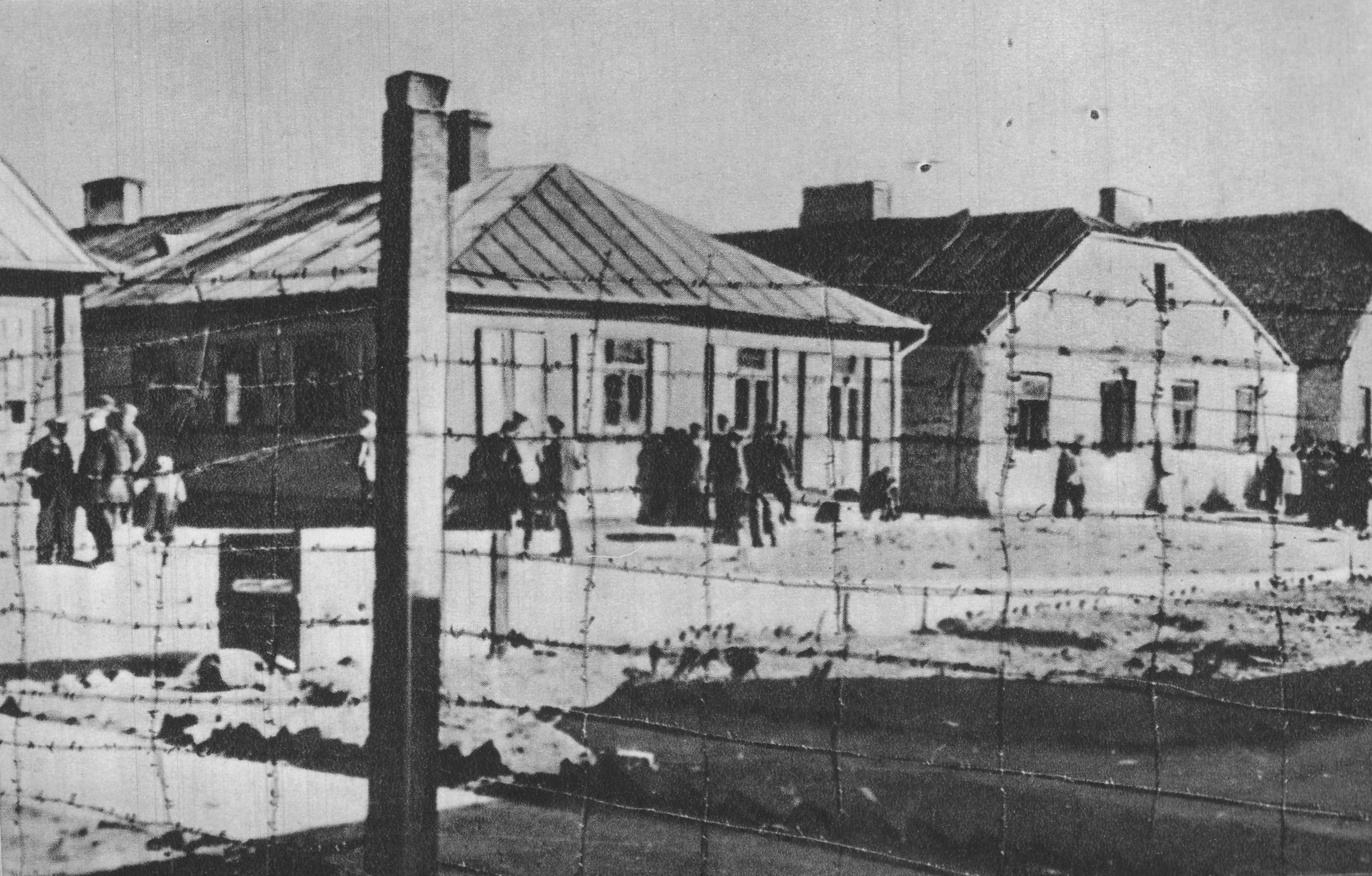 Międzyrzecz Podlaski Ghetto